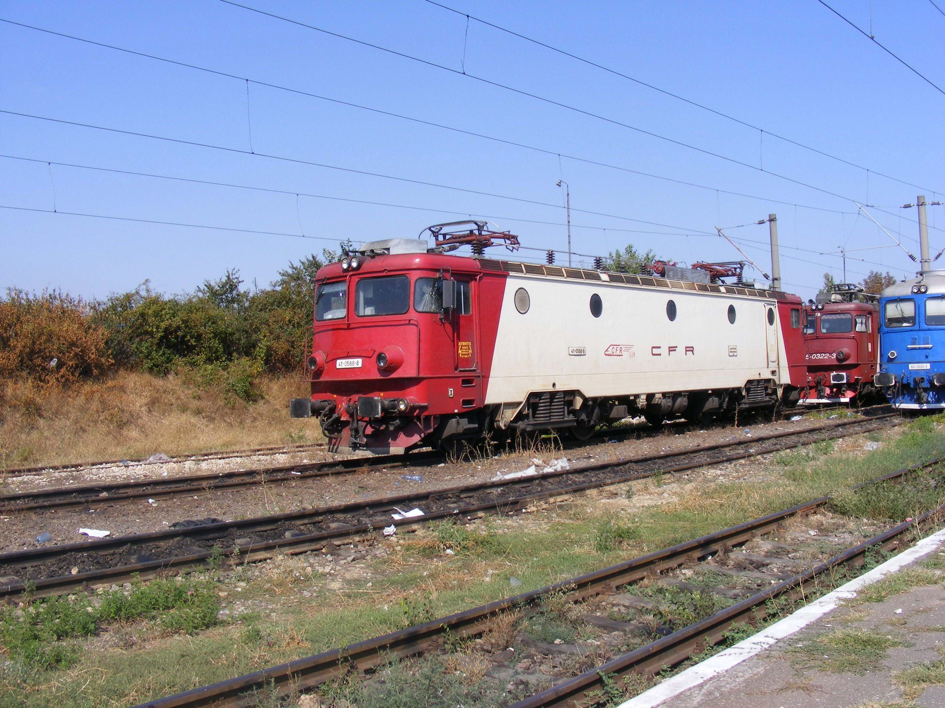 CFR 41-0588-8 at Constanta train station